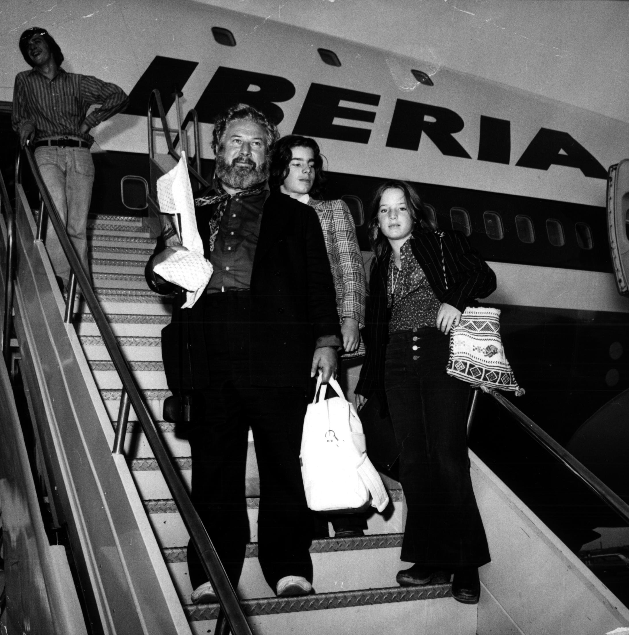 Igor Ustinov with his father Peter and a beautiful girl(?)[compare flickr: and his brother!] boarding on a plane in September 1971